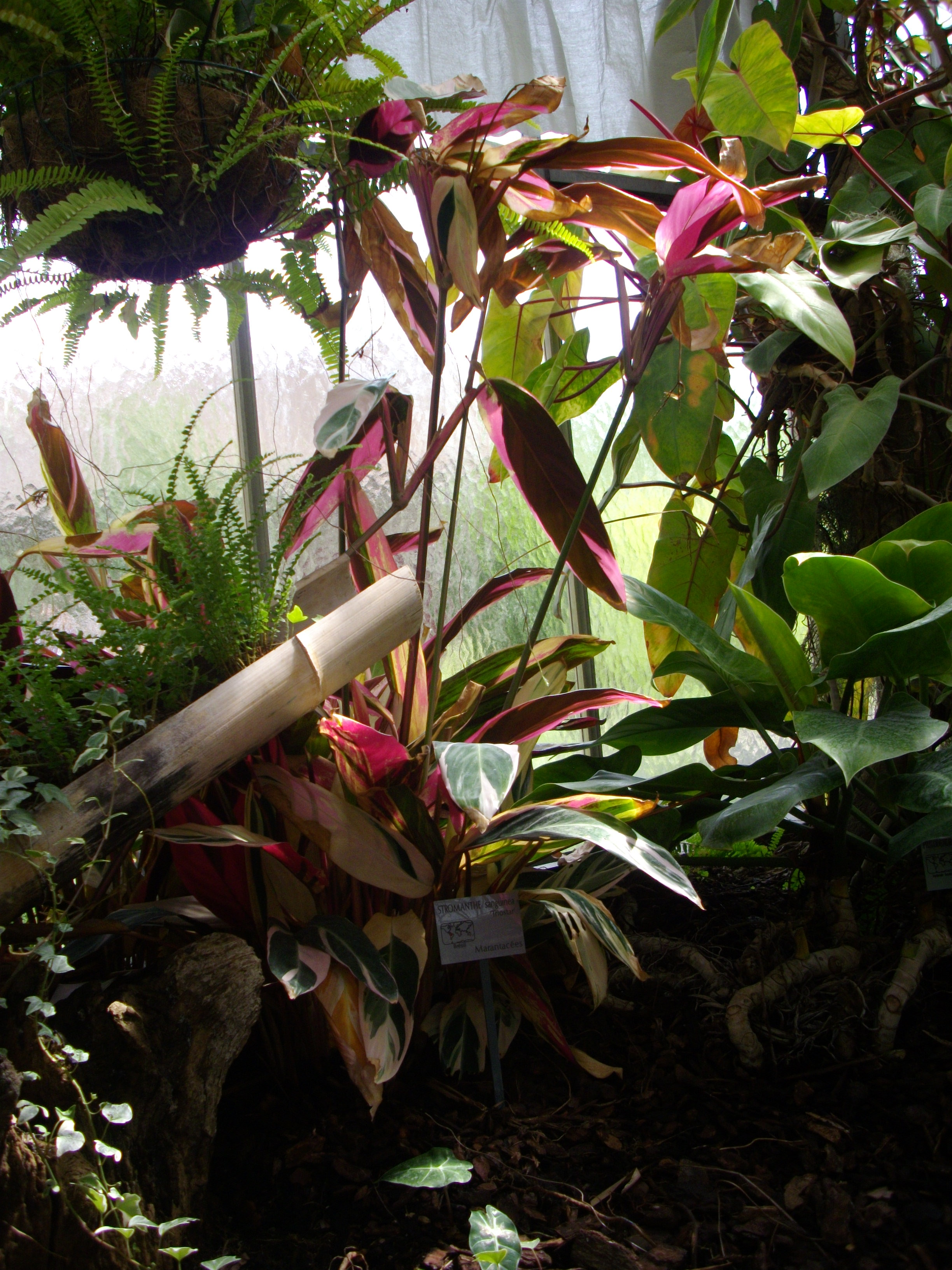 Stromanthe sanguinea 'Triostar', greenhouse of the botanical garden of Metz (France), august 2011